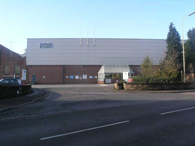 Fox's biscuit factory, Uttoxeter, Staffs. Second largest factory in the town after the JCB parts centre. But this ones smells sweeter (shortbread on the day I took the photo)